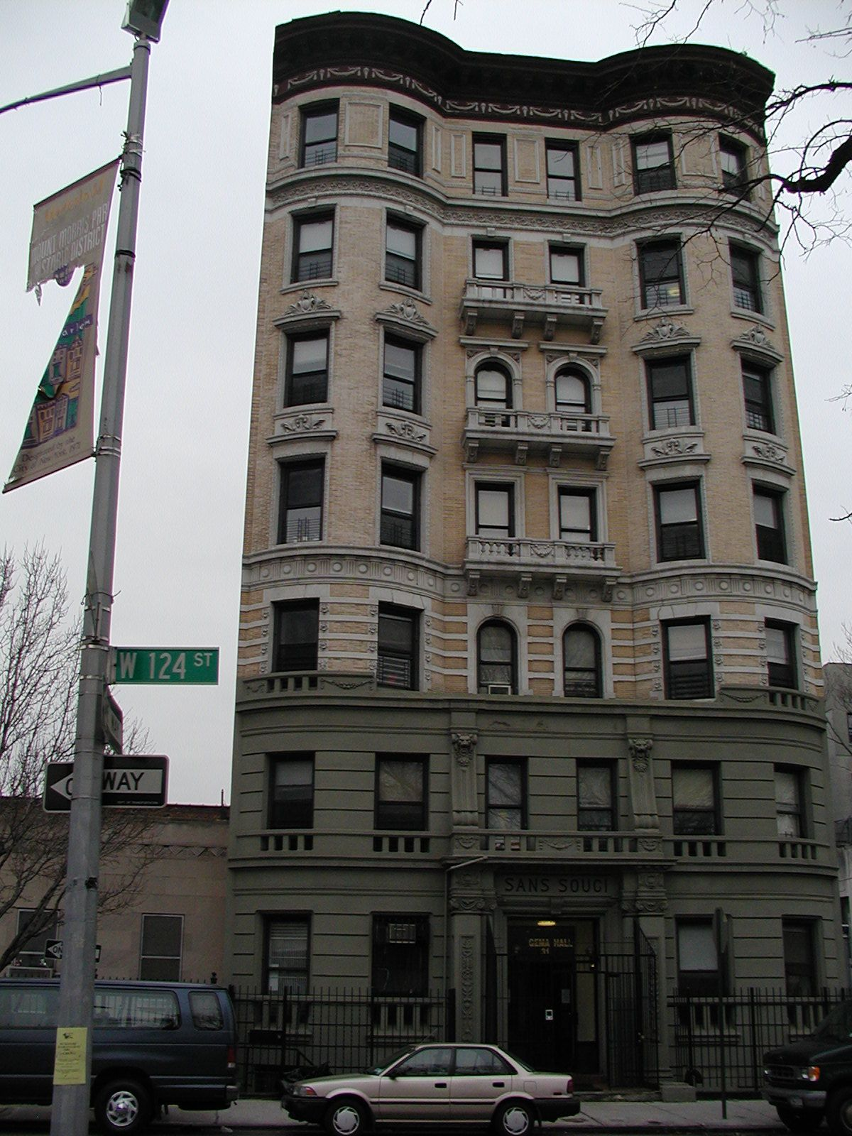 The Sans Souci residential apartment building, or 31-33 West 124th Street, in Harlem, NYC on 124th Street, opposite Marcus Garvey Park I (Petri Krohn) took this picture in March 2005. Category:Photographs by User:Petri Krohn